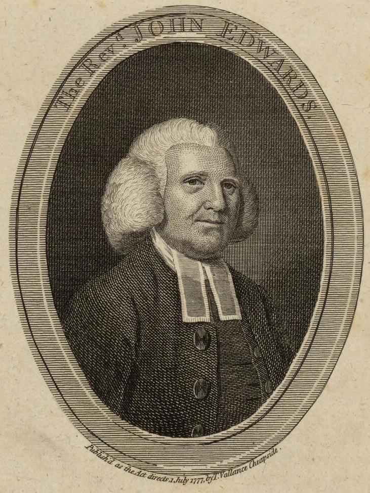 A portrait from the Welsh Portrait Collection at the National Library of Wales. Depicted person: John Edwards – english minister, born 1714